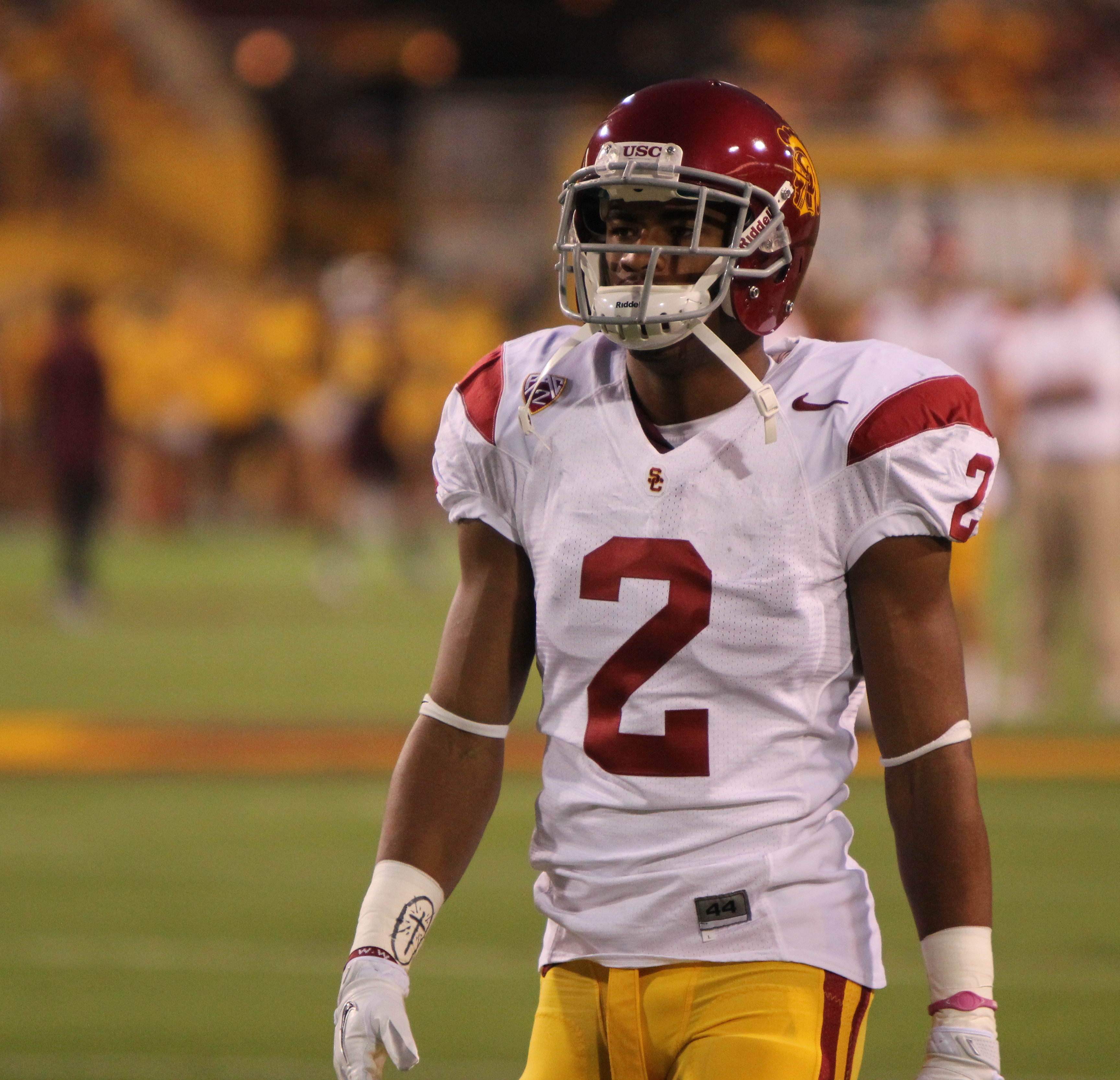 Taken by James Santelli, Neon Tommy. September 24, 2011.